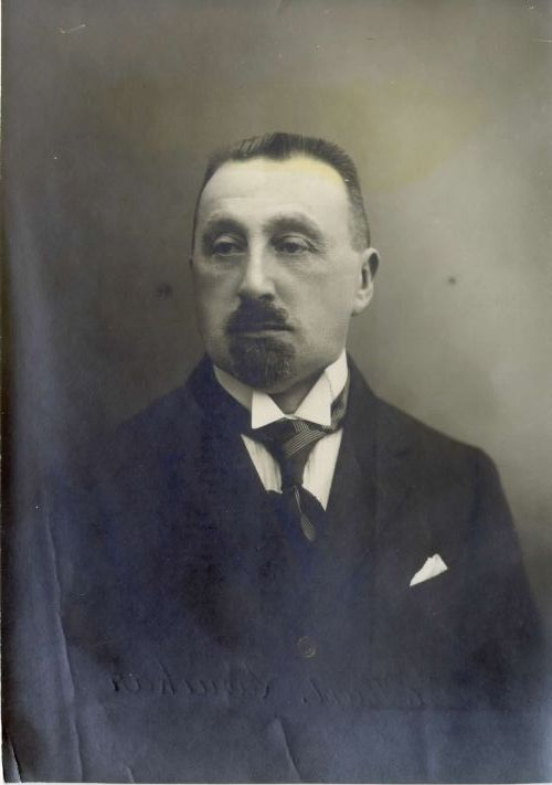 Vladimir Ravnihar (1871-1954)